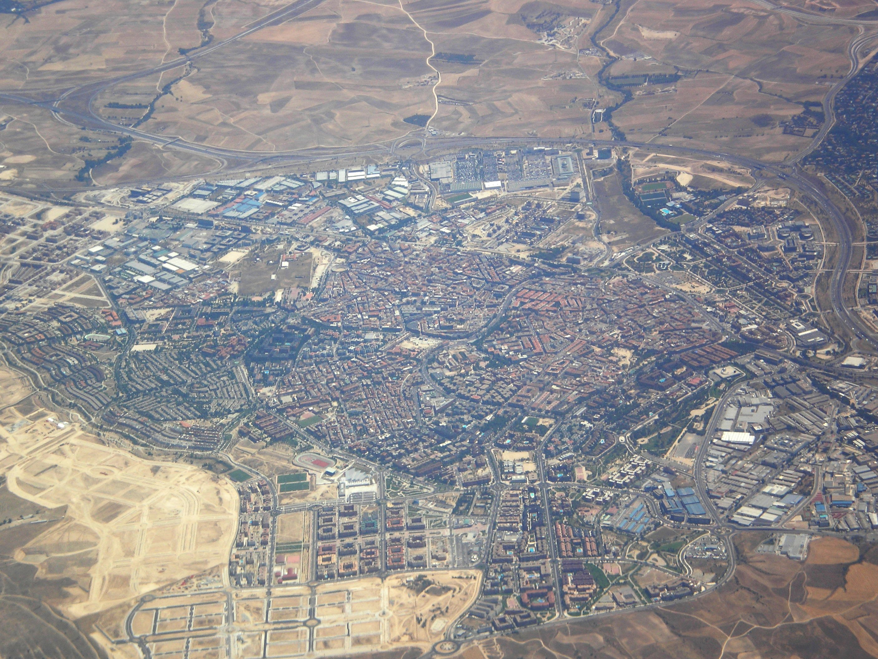 San Sebastián de los Reyes and Alcobendas seen from a plane from the west.